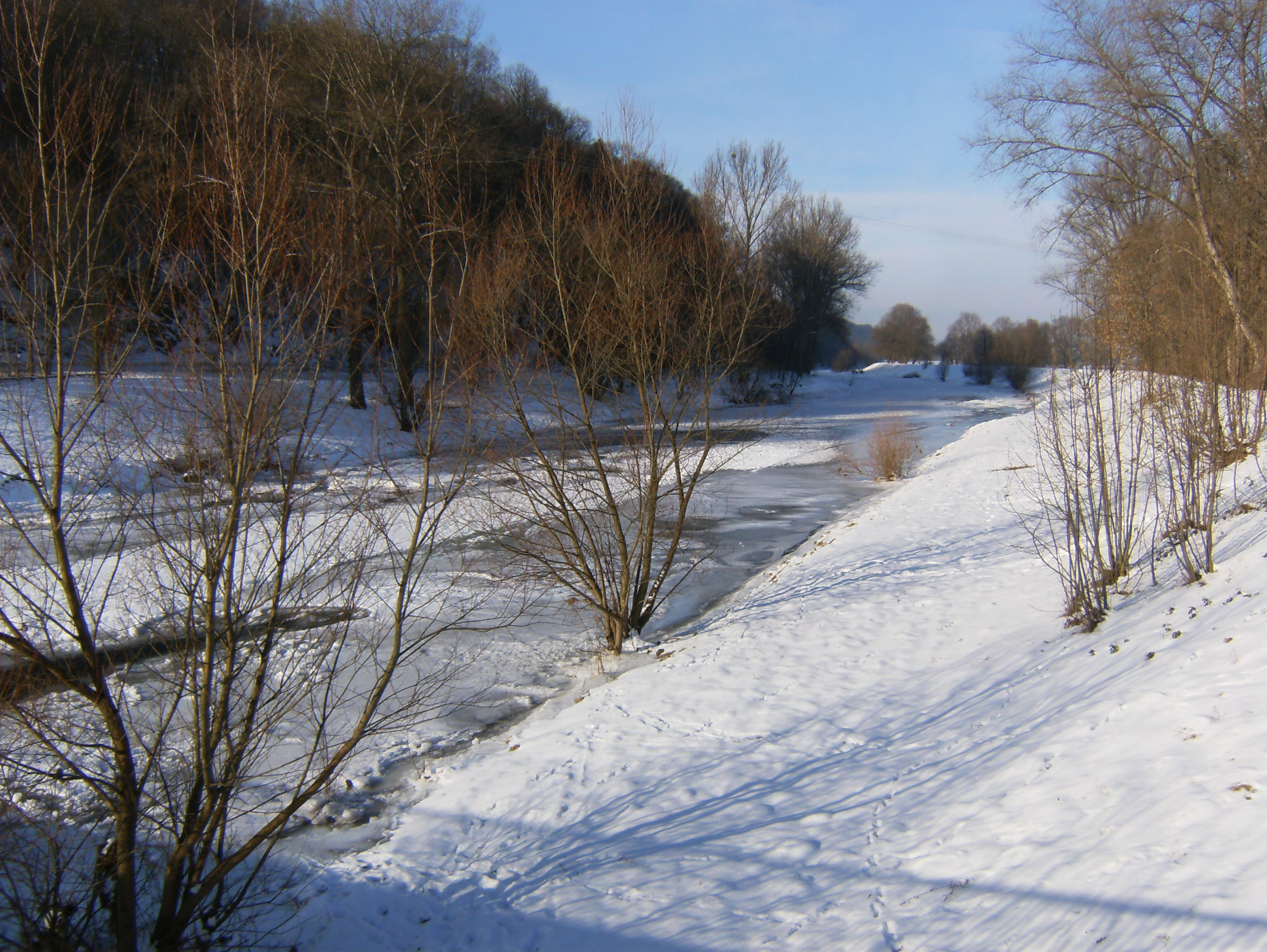 Frozen "Weiße Elster" river near Gera (Thuringia) in 2009.